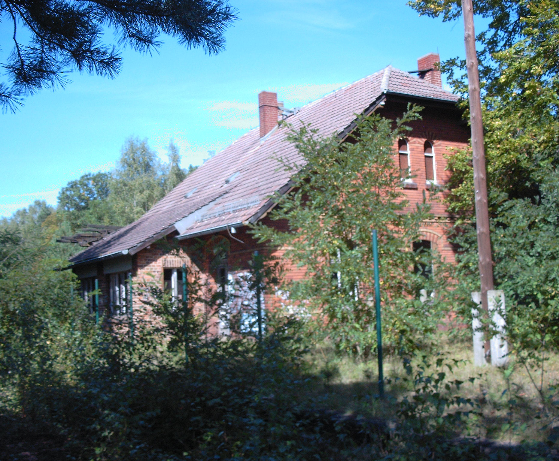 Former Halbendorf station at the railway line between Weißwasser and Forst